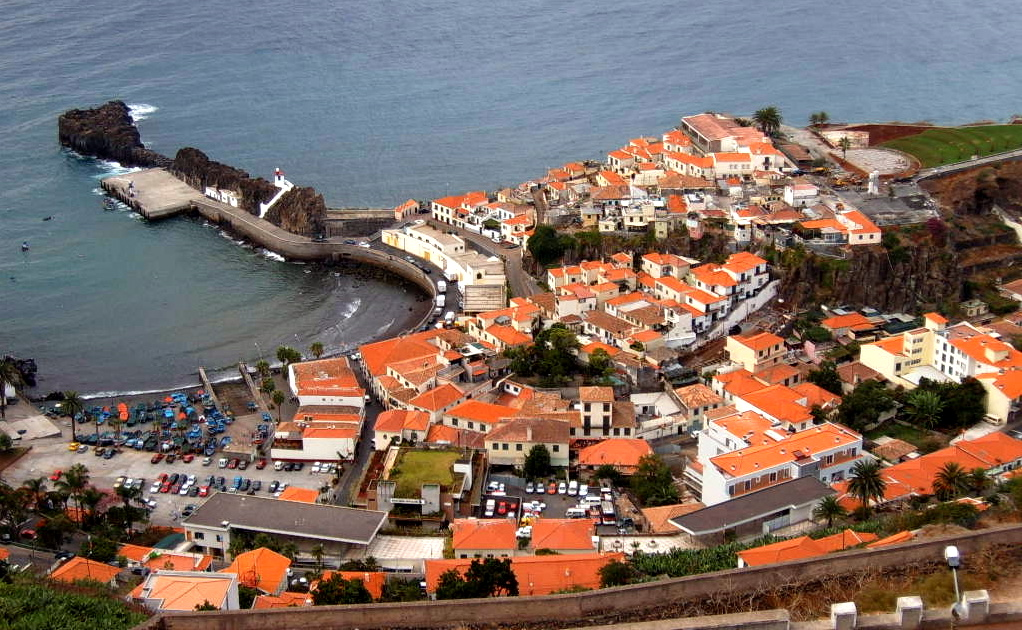 Câmara de Lobos, Madeira